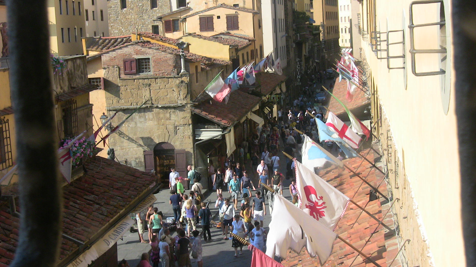 Street view of the Ponte Vecchio as seeen from from the Vasari Corridor